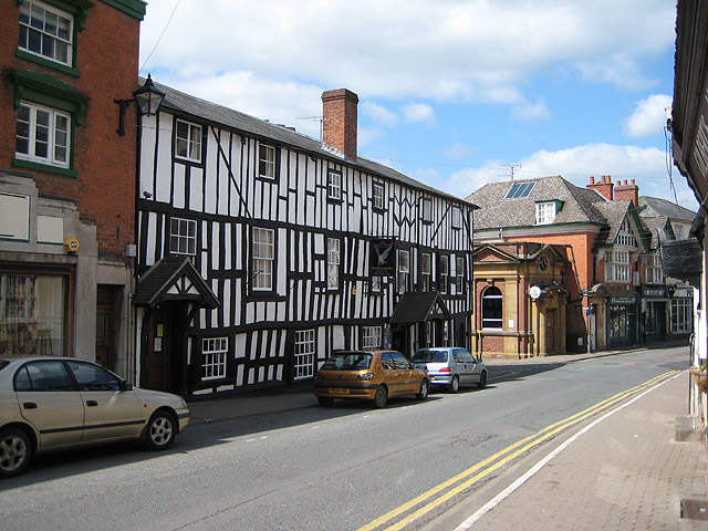 The Falcon Hotel, Broad Street, Bromyard Black and white timbered building dating from around 1535, the Falcon became an inn around a hundred years later.